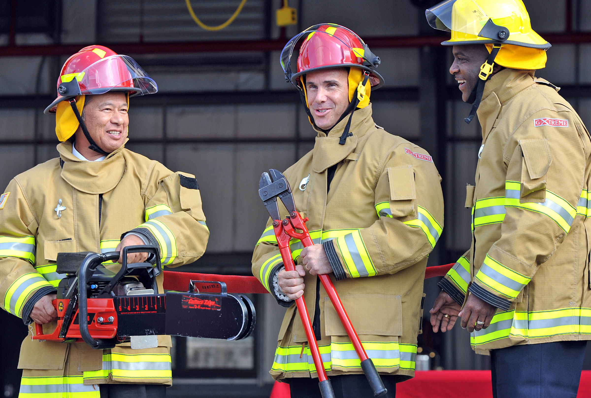 OKINAWA (Dec 3, 2010) Uruma City Mayor Toshio Shimabuku, left, Capt. Richard Weathers, commander of Fleet Activities Okinawa, and Russell Tarver, Commander, regional fire chief for Naval Forces Japan, prepare to officially opening the new White Beach Fire Station. (U.S. Navy photo by Mass Communication Specialist 2nd Class Roadell Hickman/Released)